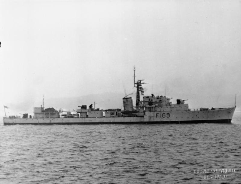 Photograph of the Royal Navy destroyer HMS Paladin after her conversion to a Type 16 frigate.